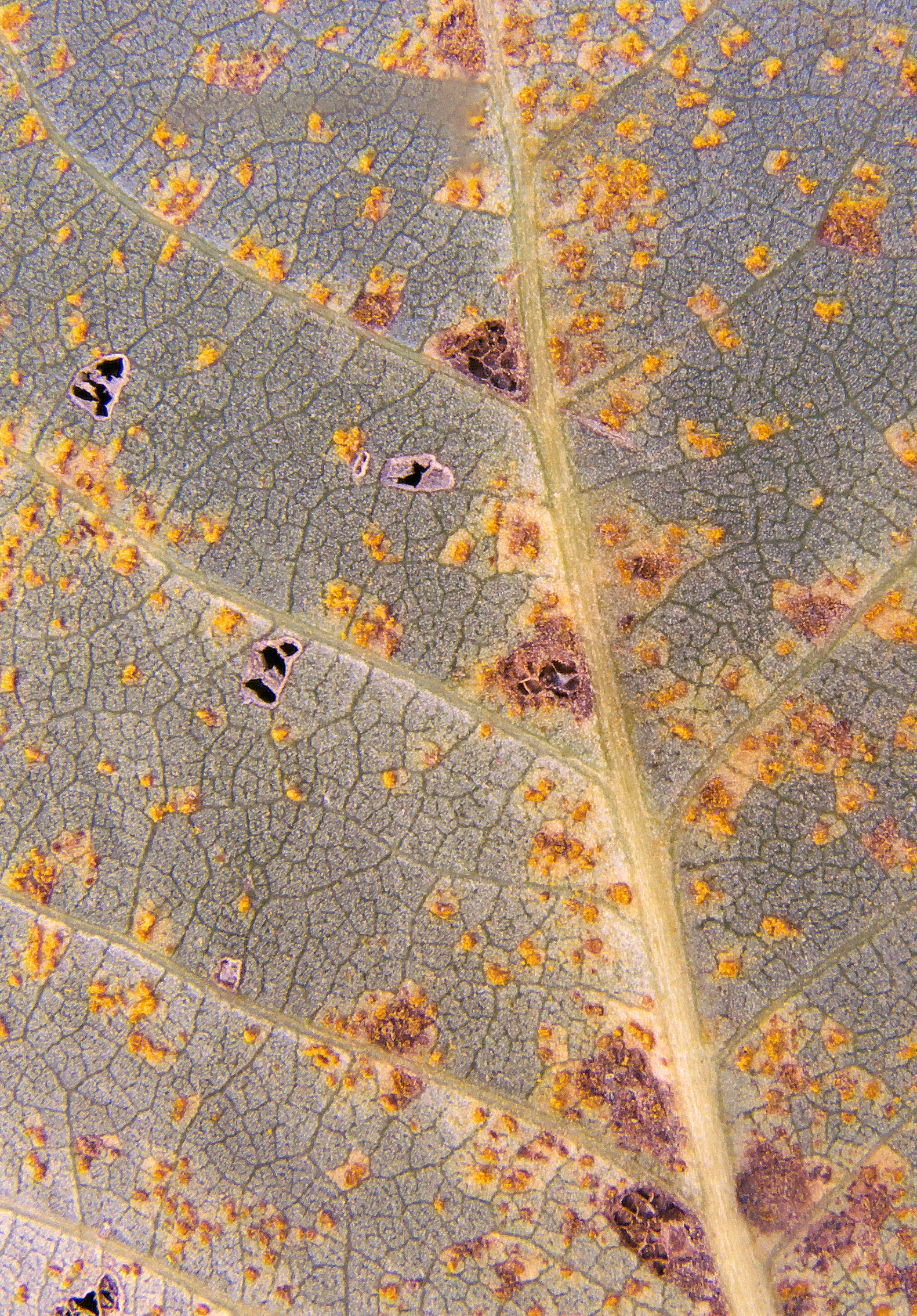 Populus ×canadensis, Melampsora larici-populina uredinia on the lower leaf surface